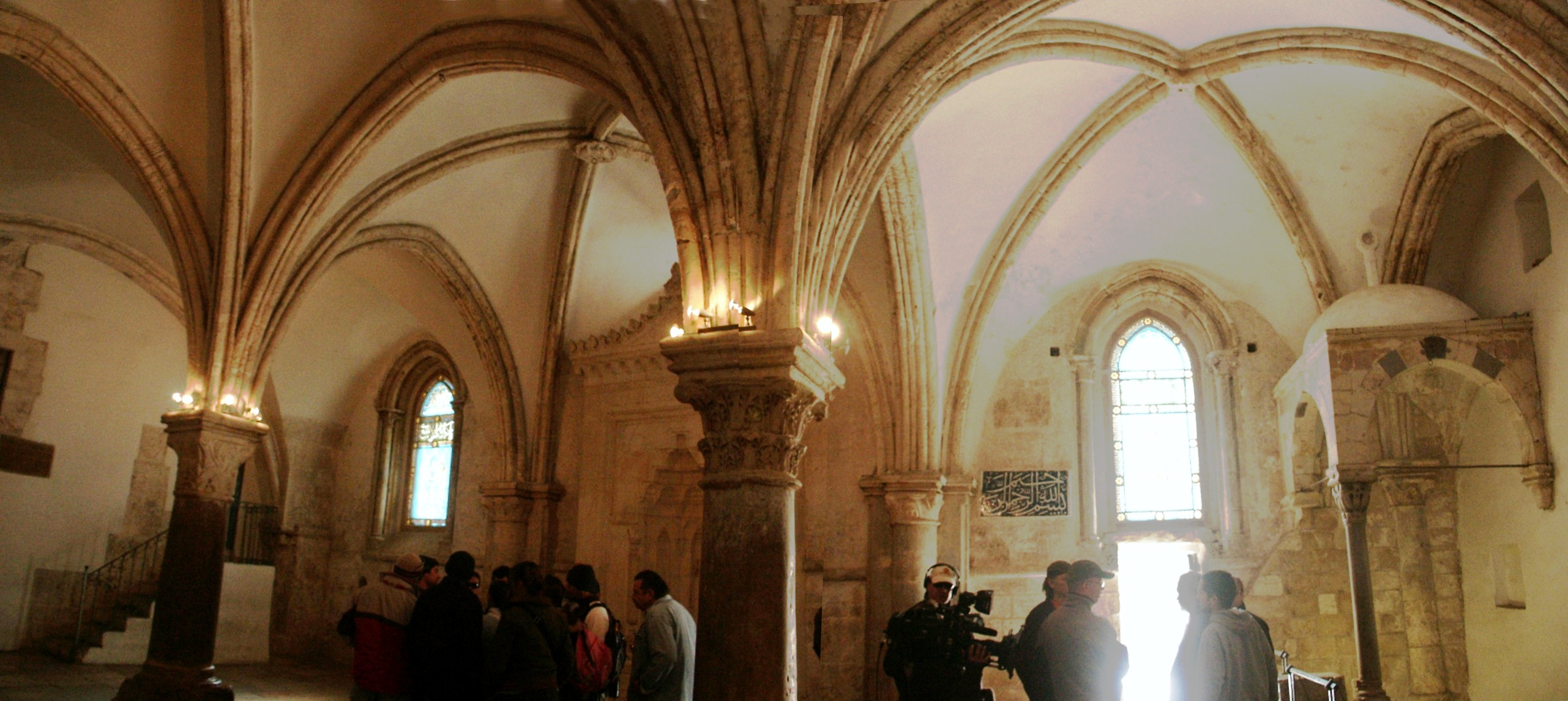 The last supper room in Jerusalem, Cenacle